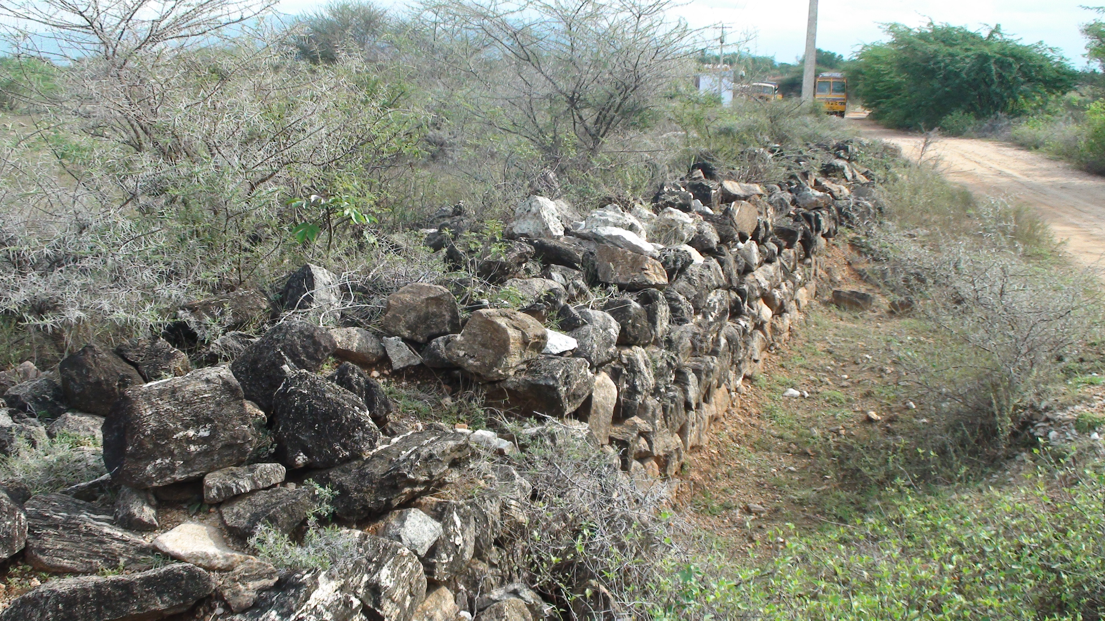 Madilkarai looted